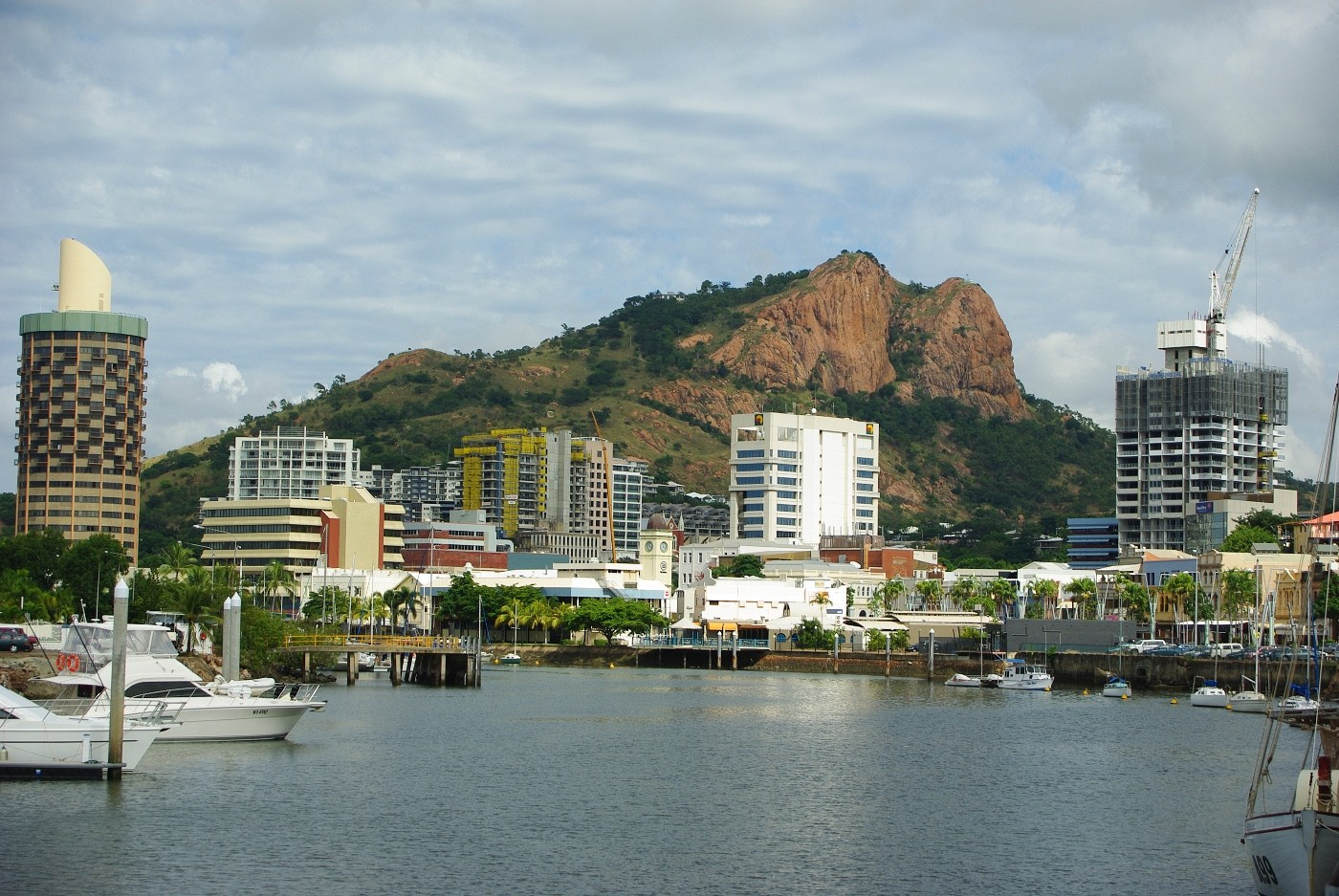 Townsville CBD, Queensland, Australia, January 2009